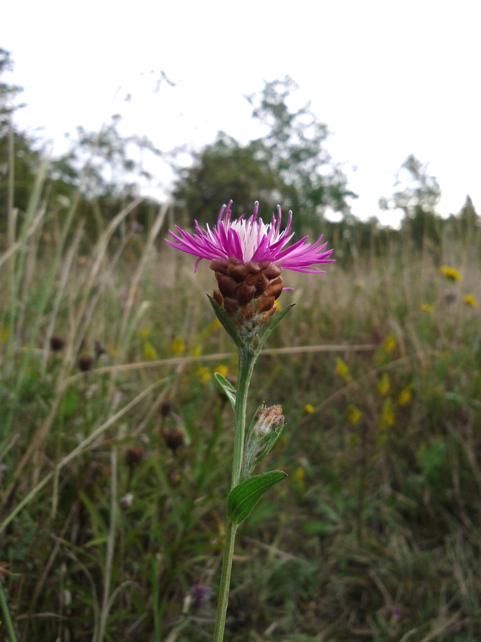 Inflorescence Taxonym: Centaurea jacea subsp. angustifolia ss Fischer et al. EfÖLS 2008 ISBN 978-3-85474-187-9 Location: Kronawettberg, Hagenbrunn, district Korneuburg, Lower Austria - ca. 275 m a.s.l. Habitat: semi-dry grassland